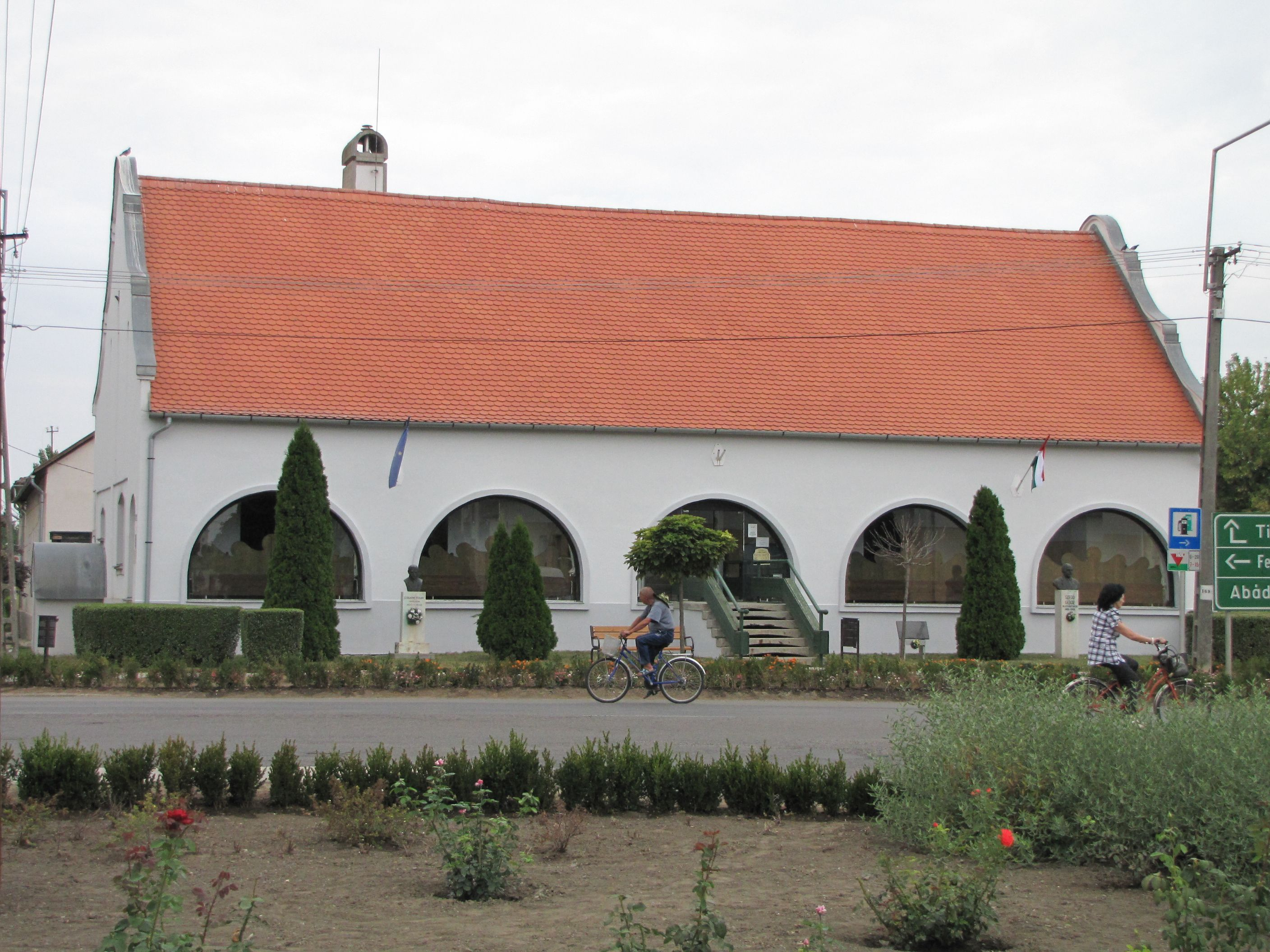 Municipal library, Kunhegyes, Hungary